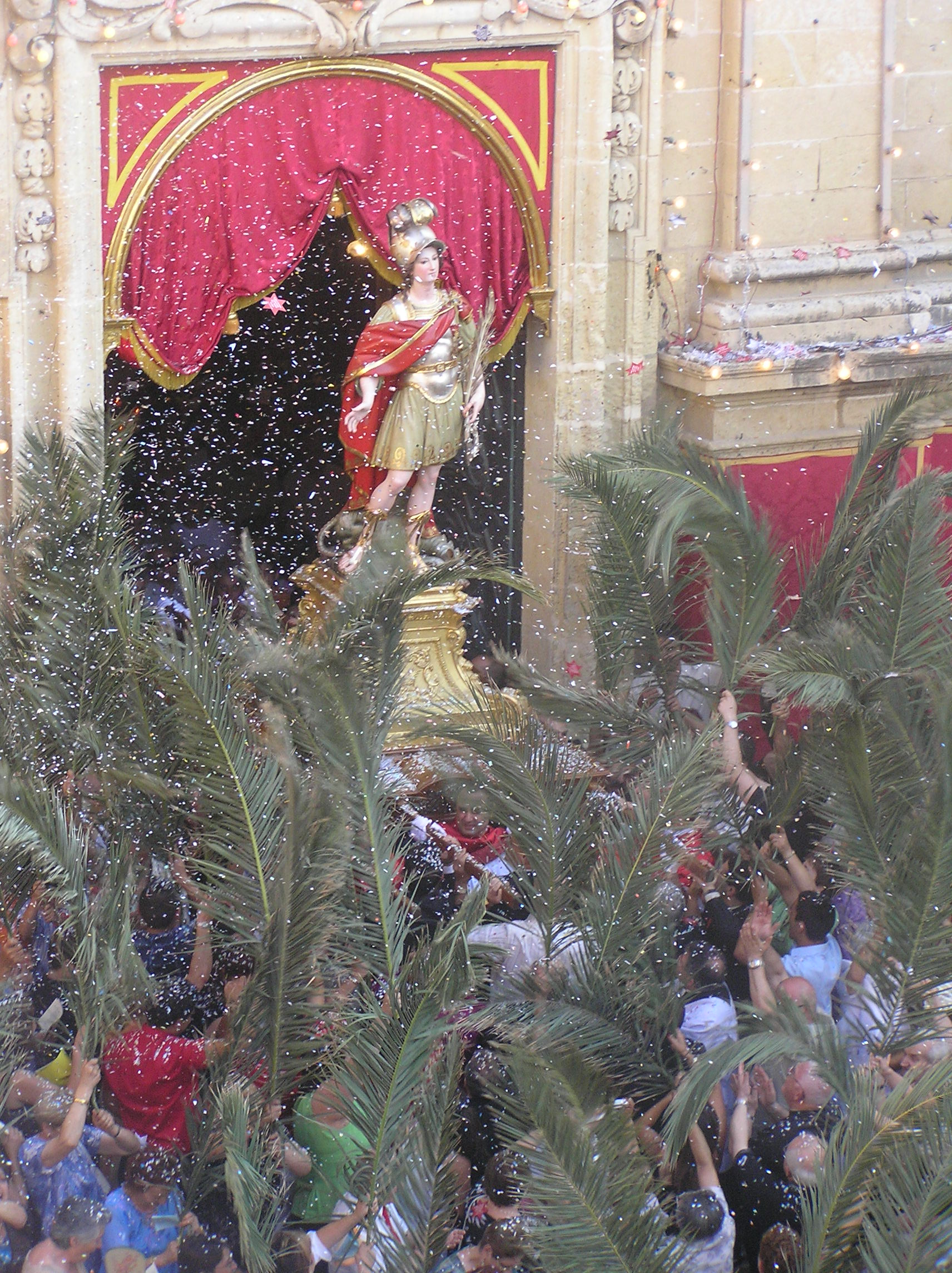 Gloria a Giorgio. The statue of St. George issuing from the Basilica on the thrid Sunday of July.